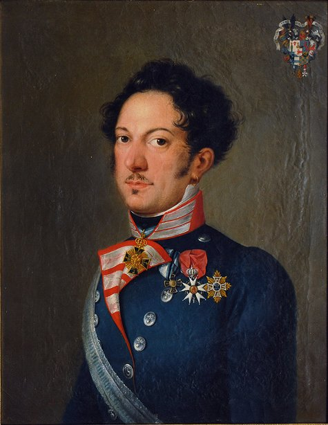 painting of the 32 y.o. Leonhard von Hohenhausen (1788 – 1872)